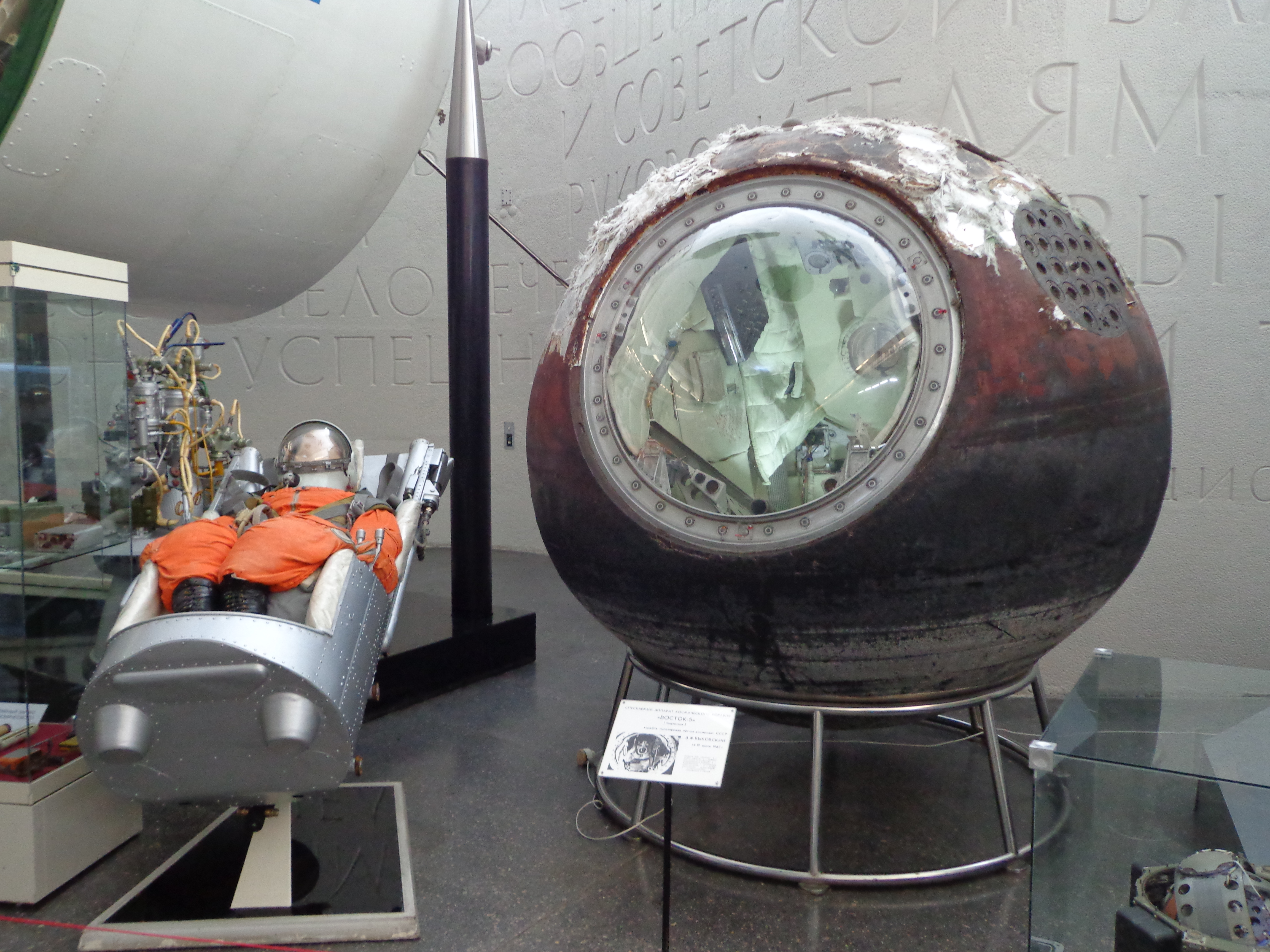 Vostok-5 re-entry capsule on display at Tsiolkovsky State Museum of the History of Cosmonautics, Kaluga